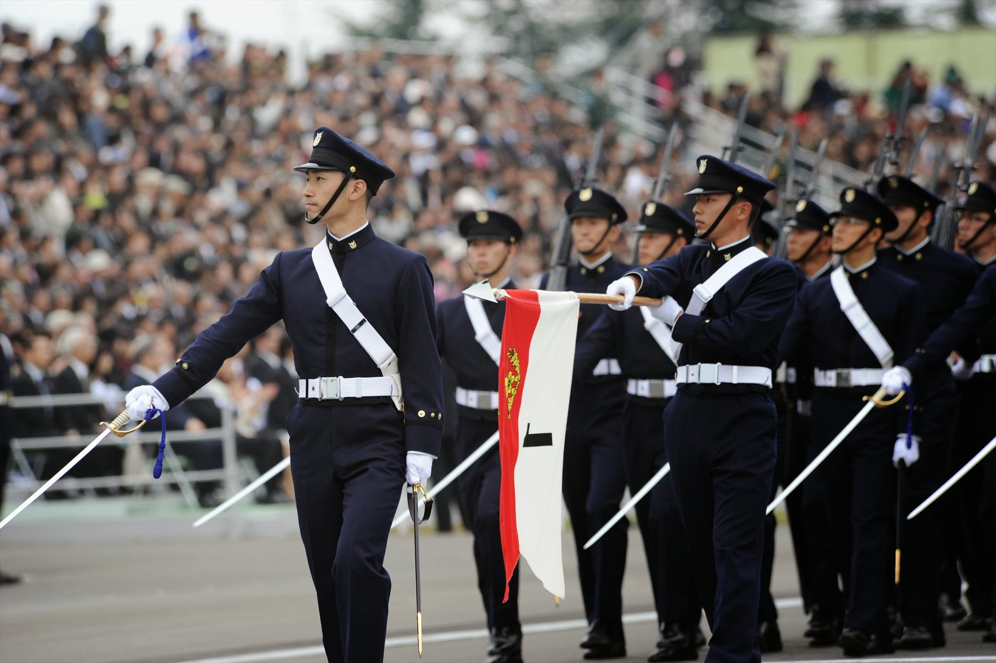 Title 11_03_032_R.JPG Album 自衛隊記念日 観閲式(Parade of Self-Defense Force) 平成22年度自衛隊記念日 観閲式(Parade of Self-Defense Force)